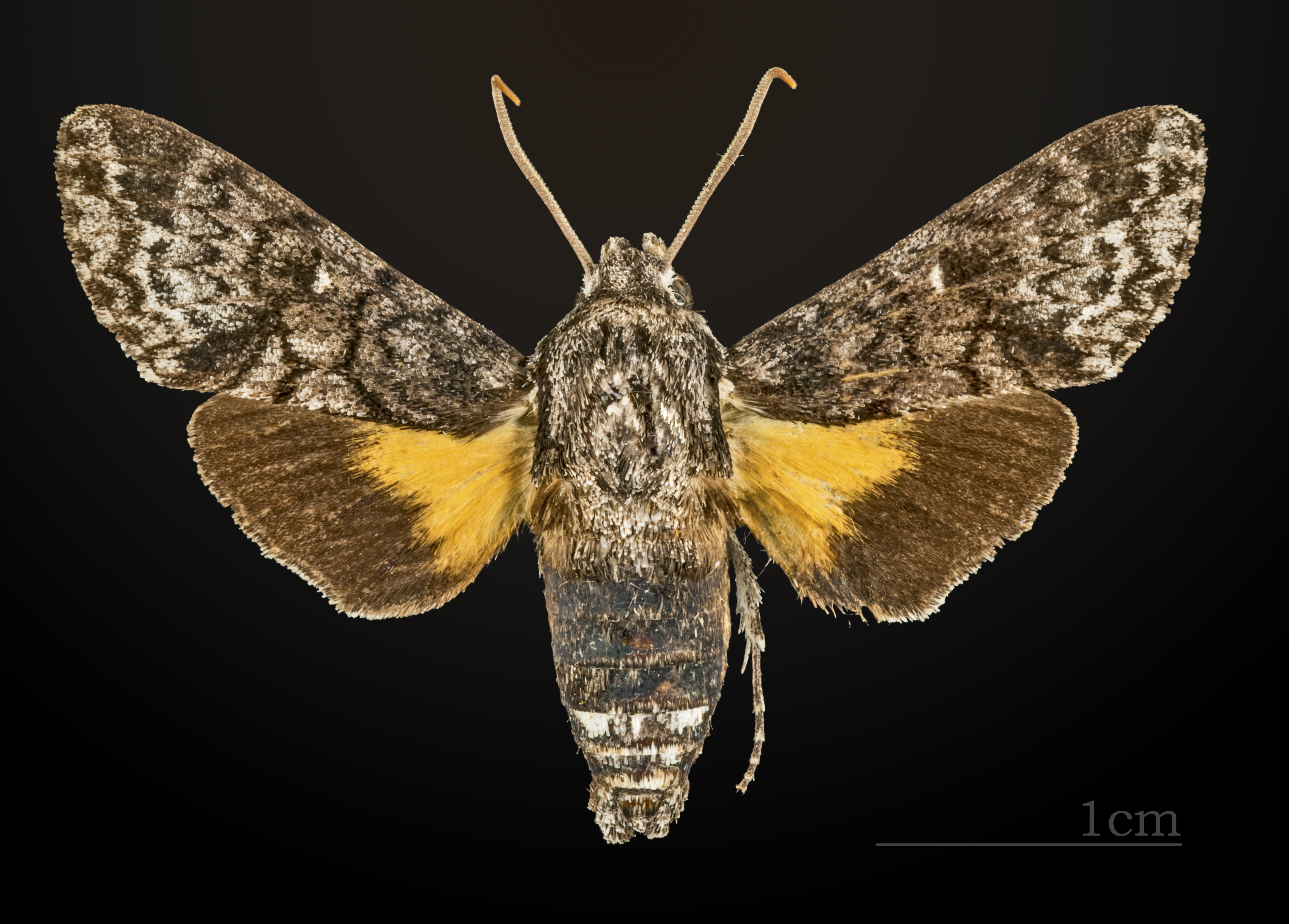 Cautethia yucatana - Dorsal side Collection of the Mathematician Laurent Schwartz